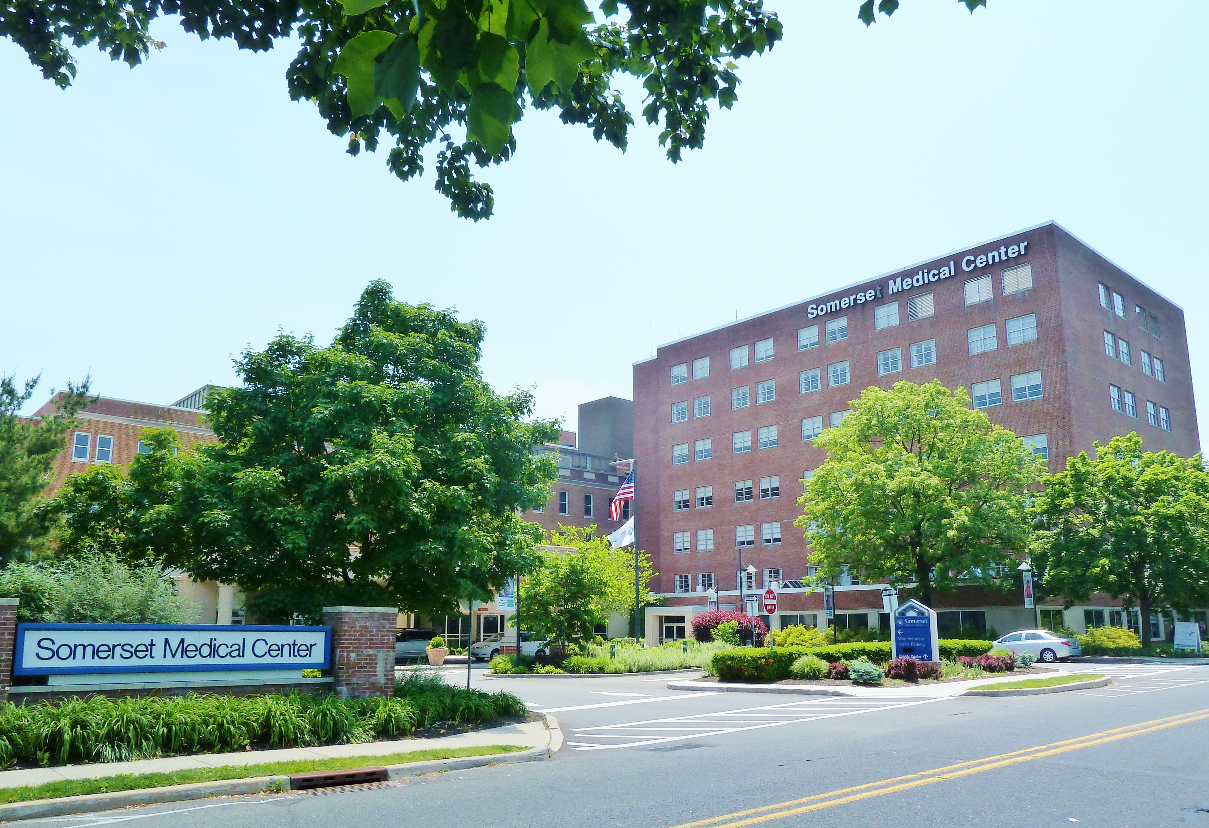 Somerset Medical Center, Somerville, NJ